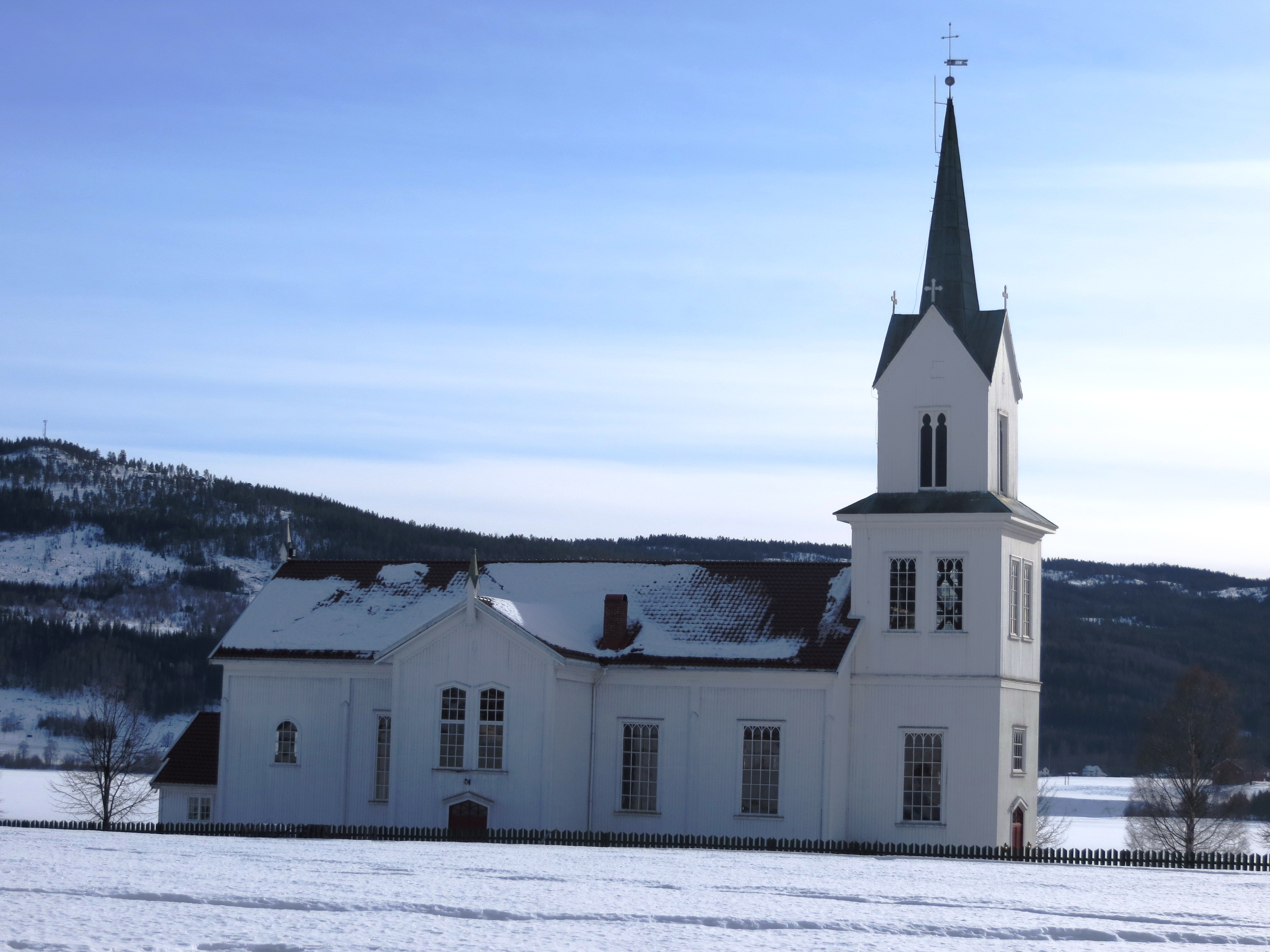 Image from Krødsherad municipality, of the Noresund / Krøderen area. Buskerud county, east Norway